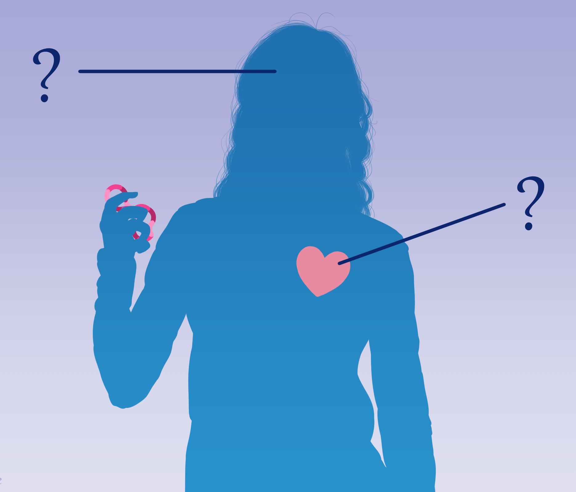 Alexithymia involves limited emotional awareness. People with alexithymia struggle with identifying and describing their feelings. Autistic people often experience alexithymia. It's also common in PTSD, eating disorders, addiction, depression, and other conditions. It may occur in people who are otherwise neurotypical as well.